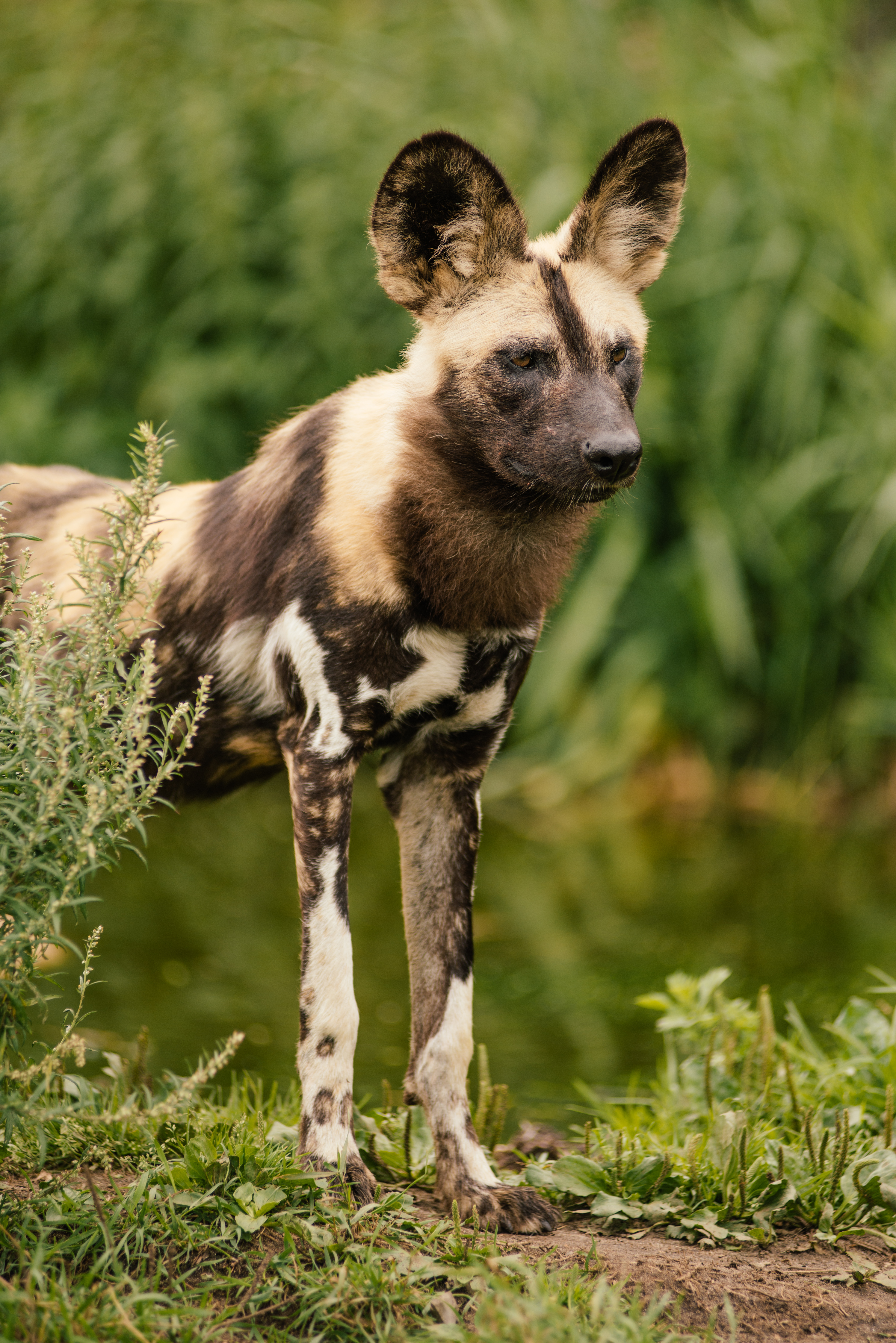 A lycaon pictus (also known as African wild dog) photographed in Ree Park, Denmark.